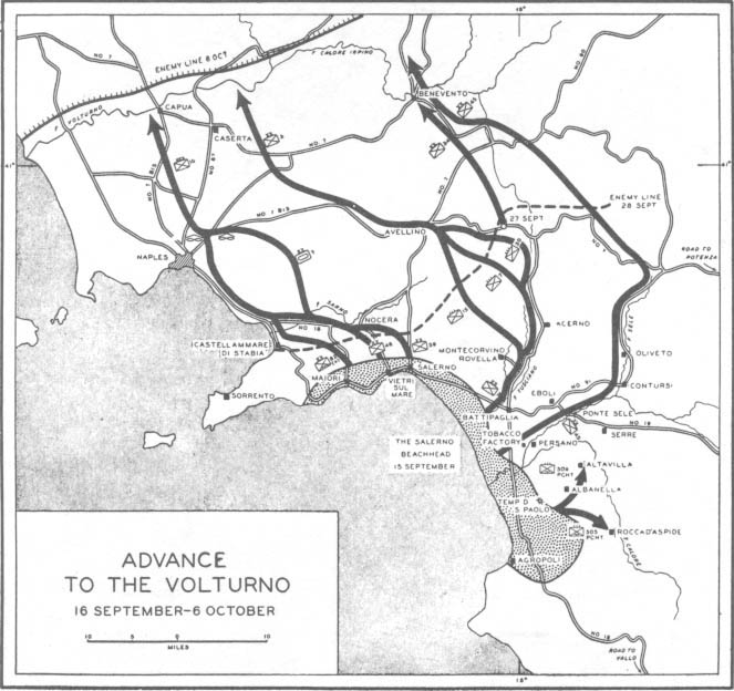 Allied Advance from Salerno to the Volturno 16 September to 6 October 1943